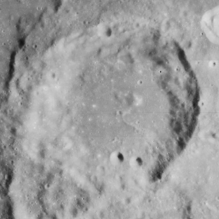 Jansky, on the moon, with north at the top.